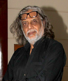 Muzaffar at media meet of ‘Jaanisaar’